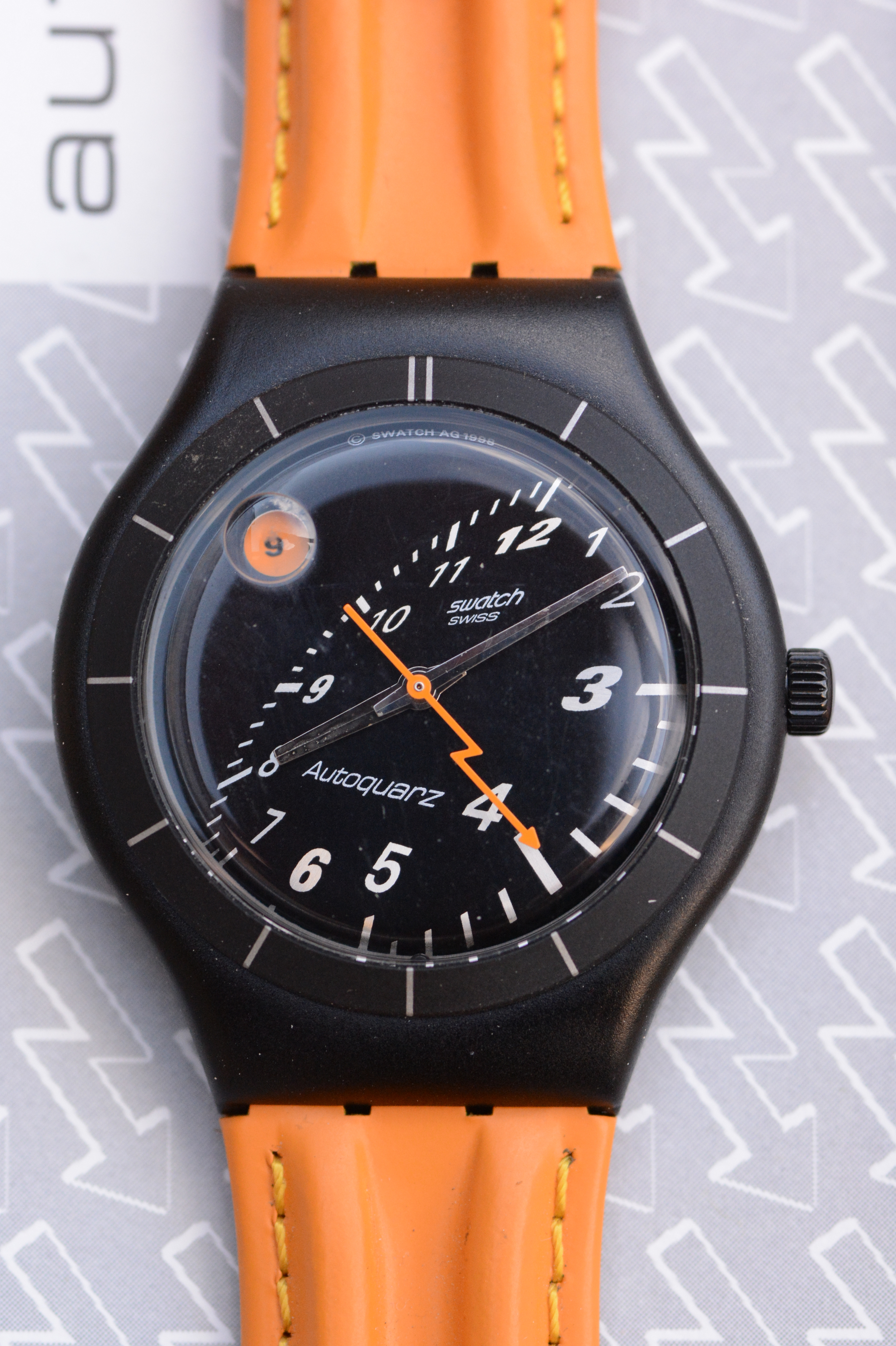 Swatch Swiss Autoquarz, 1998